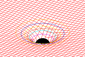 The curvature of spacetime around the source of the gravitational force